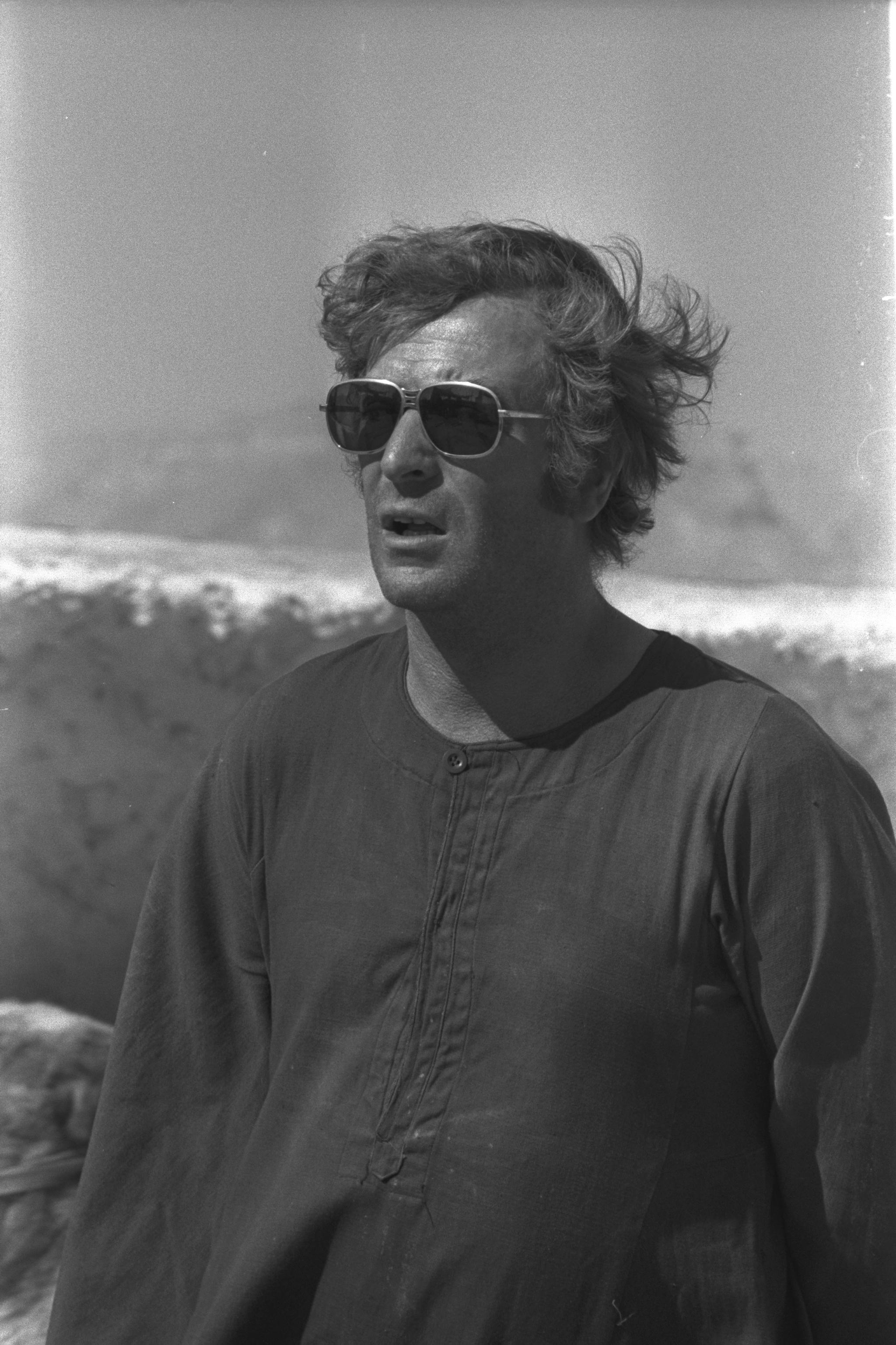 Michael Caine stars in “Ashanti,” filmed at the Moon Valley above Eilat. כוכב הסרט מייקל קיין על סט צילומי הסרט "אשנטי". צולם בעמק הירח מעל אילת. Photo: Moshe Milner (1946–) Alternative names Miylner, Moše; Milner, Mosheh; Moshé Milner; Milner, M.; Mîlner, Moše; Miylner, MošehDescriptionIsraeli photographerצלם ישראליDate of birth 1946 Location of birth Germany Authority control : Q28750411 VIAF: 100999744 ISNI: 0000 0001 0804 0507 LCCN: n82072104 GND: 115699732 BNF: 15548788n WorldCat creator QS:P170,Q28750411 , 26/06/1978.